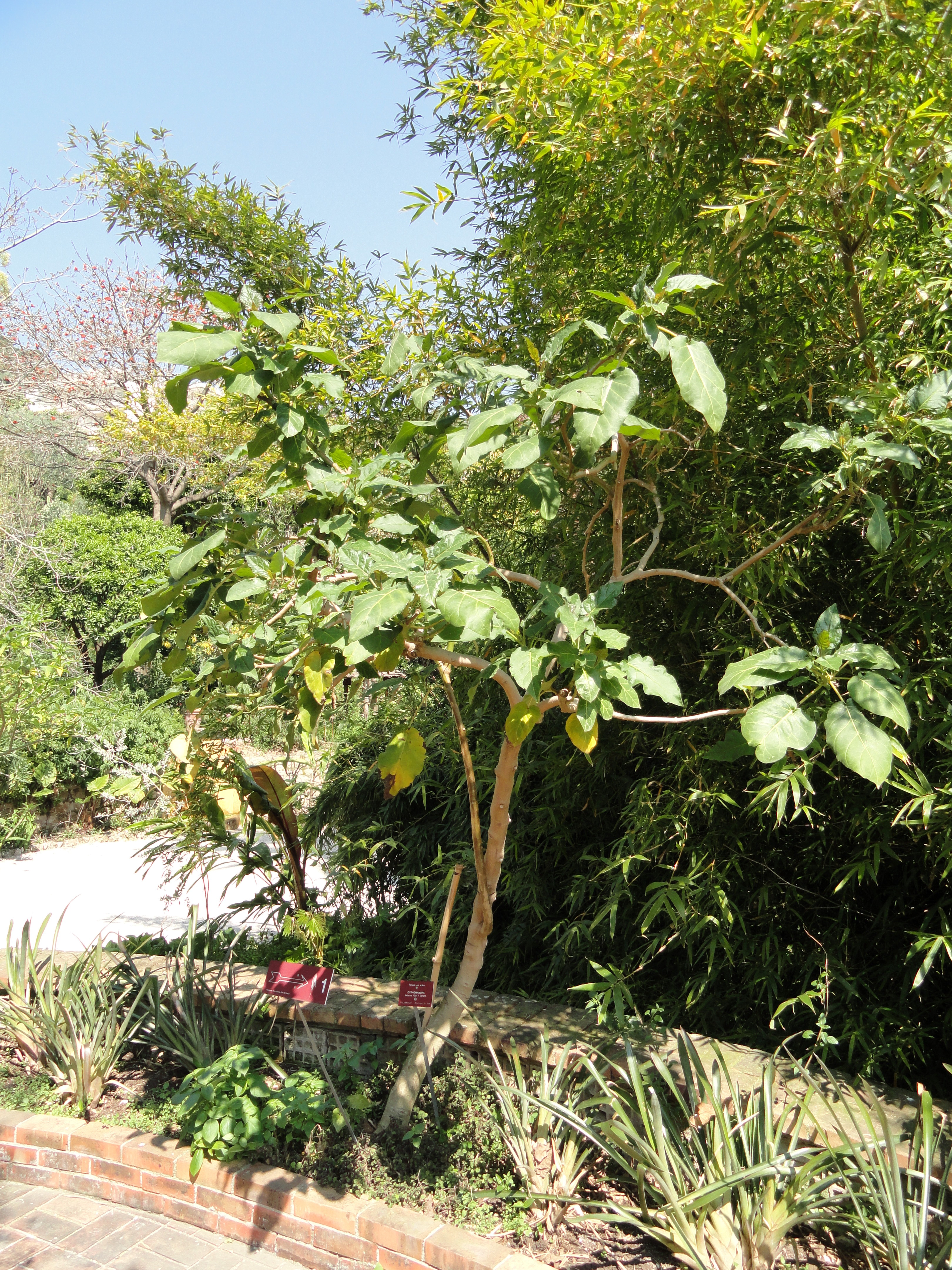 Cyphomandra betacea specimen in the Jardin botanique du Val Rahmeh, Menton, Alpes-Maritimes, France.